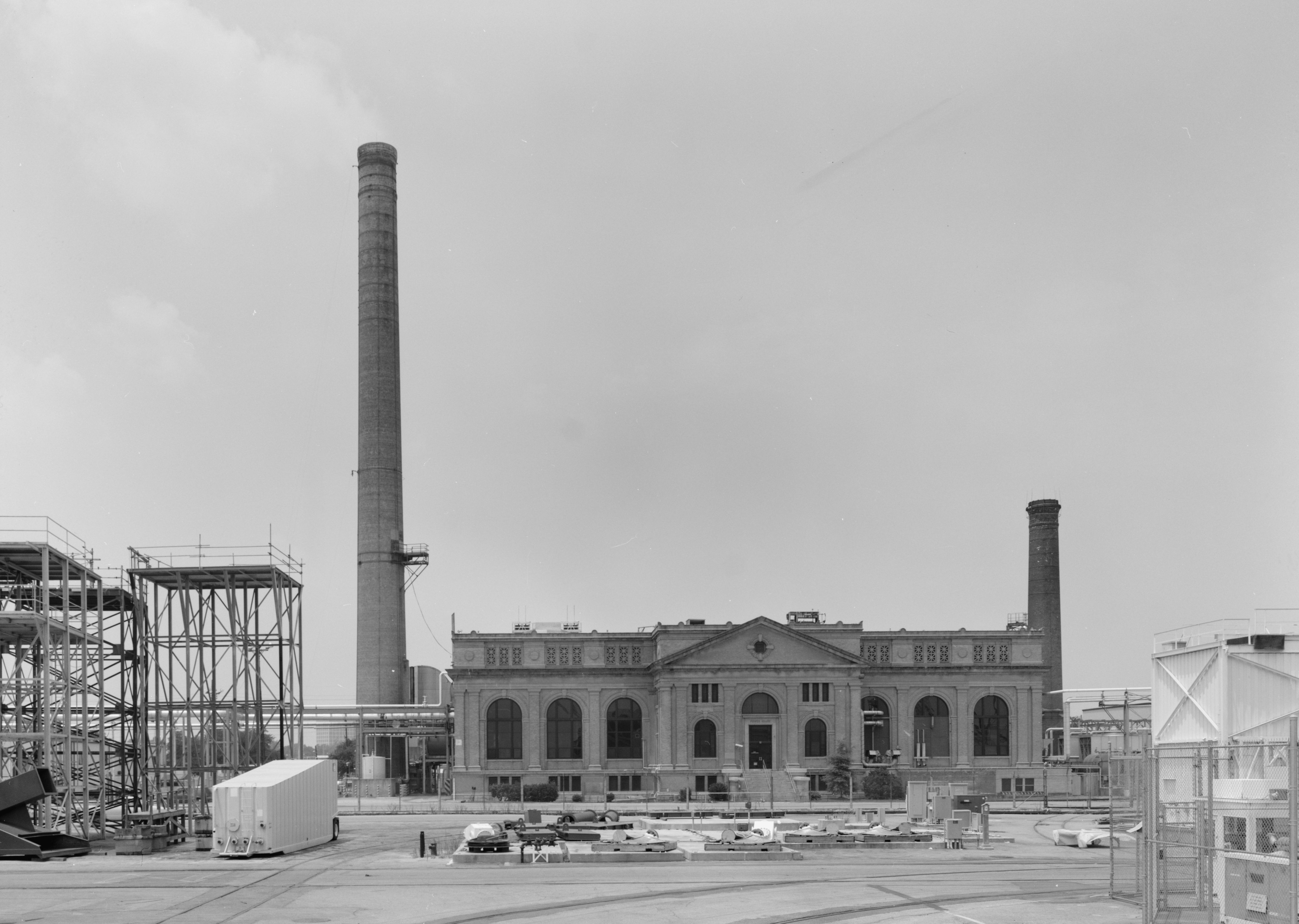 U.S. Naval Base Charleston, Building No. 32 Smokestack, Hobson Avenue, City of North Charleston (Charleston County, South Carolina) - cropped